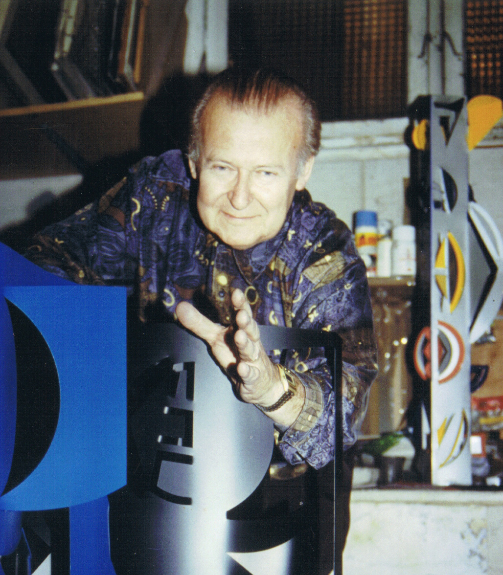 Picture of artist and writer Volf Roitman